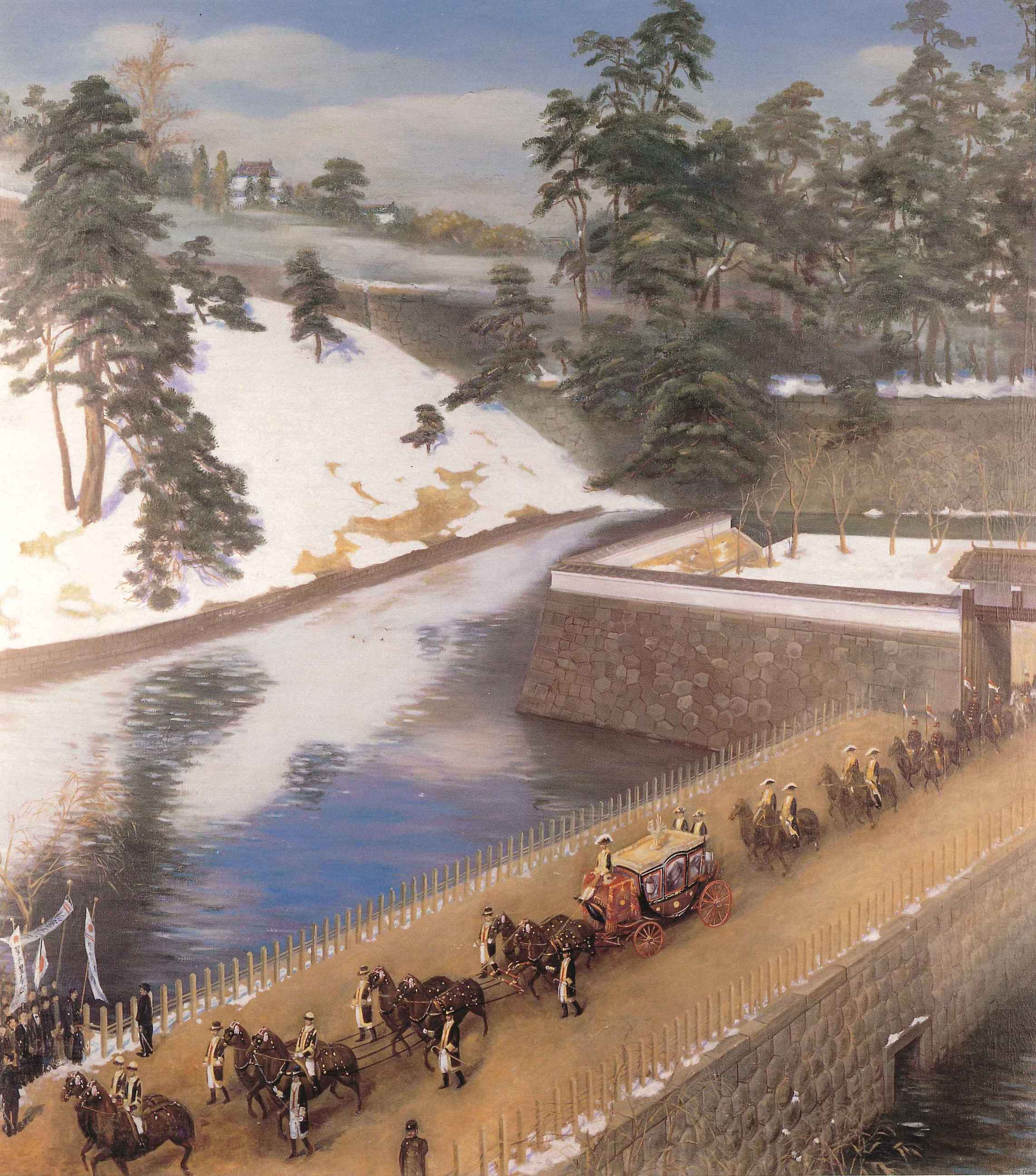 The Empress and the Emperor went to the military parade which commemorated promulgation of the Constitution on February 11, 1889.